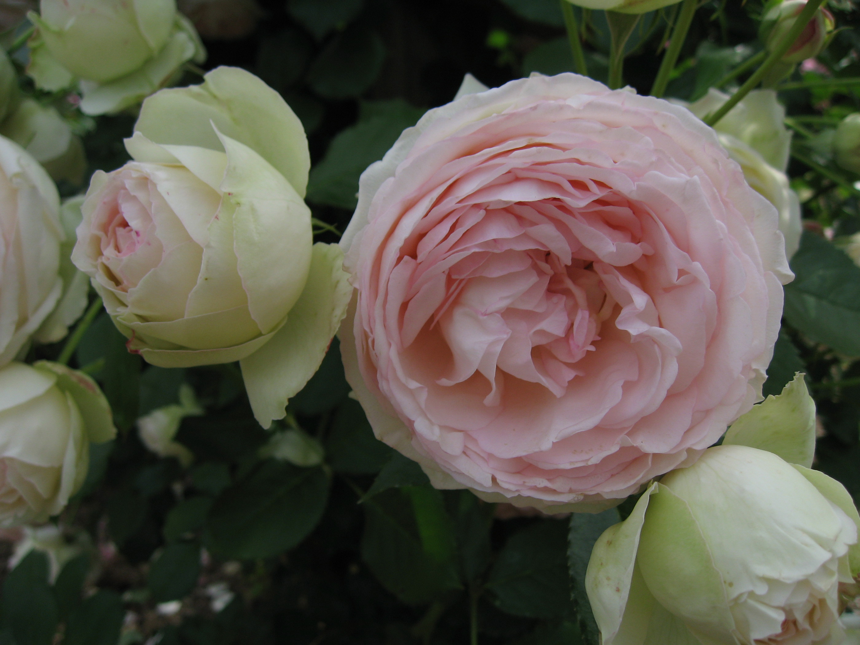 Rosa cv 'Pierre de Ronsard', CL, Meilland (1987), Flower Festival Commemorative Park Seta Kani, Gifu Japan.